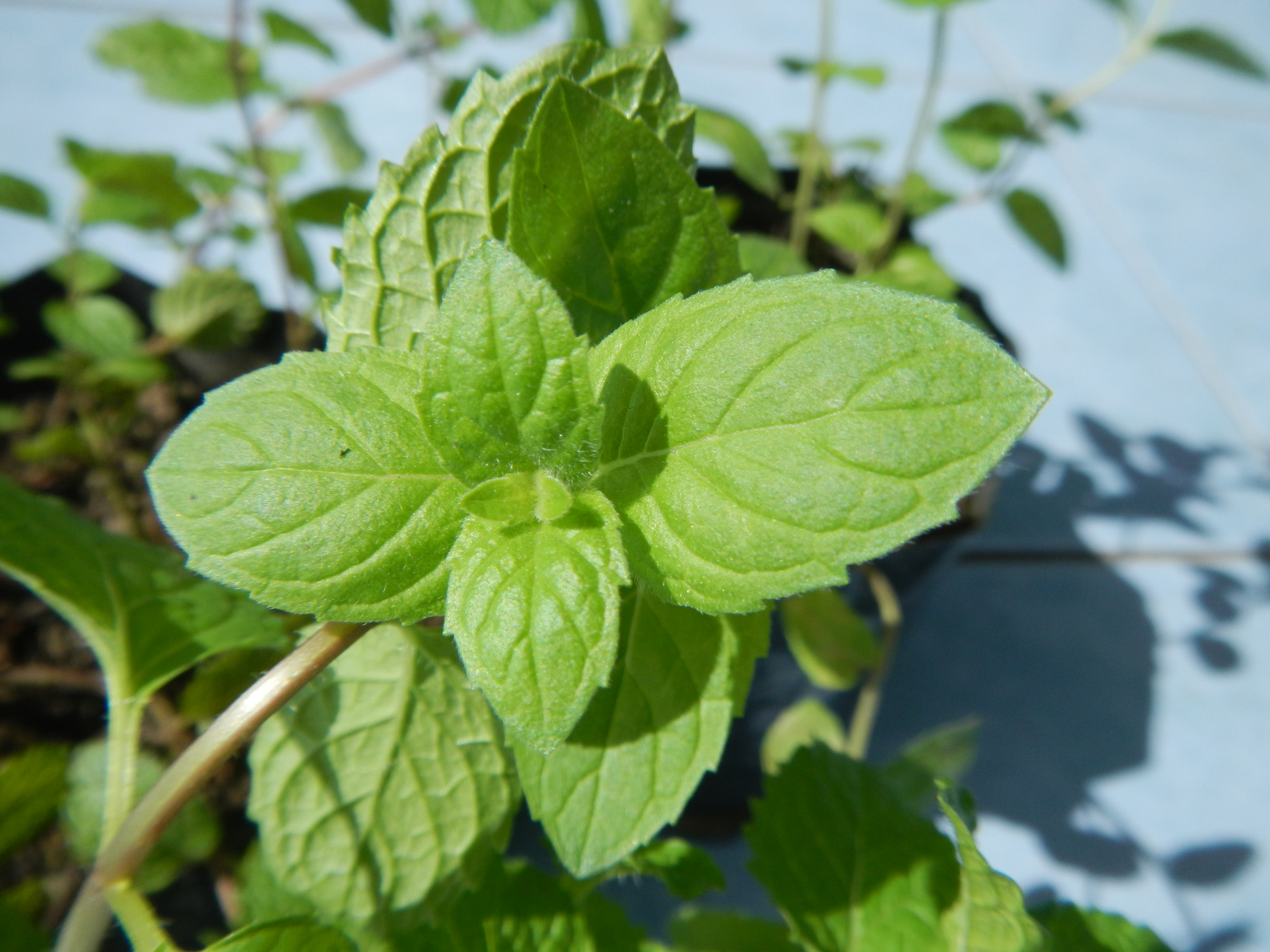 Swiss Mint (Mentha x piperita 'Swiss') plants Mentha spicata, excellent in teas. .